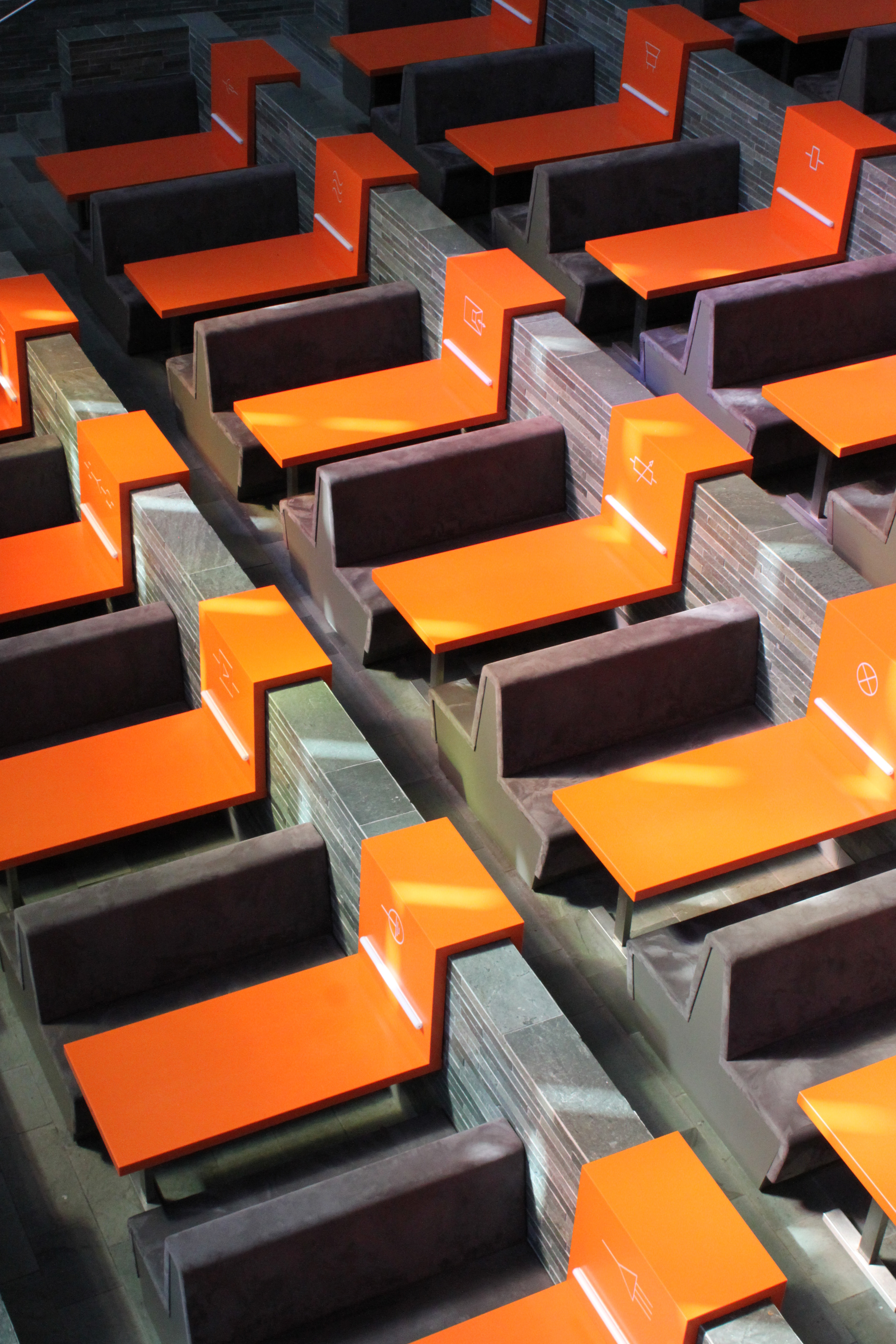 Atrium of the Netherlands Institute for Sound and Vision (Nederlands Instituut voor Beeld en Geluid) in Hilversum, the Netherlands.